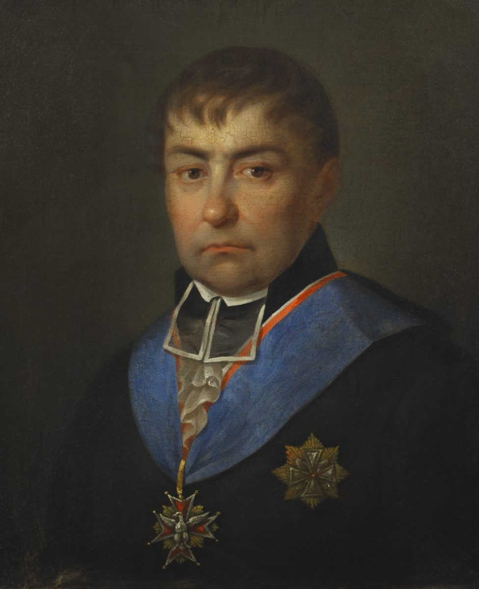 Portrait of Hugo Kołłątaj (1750-1812)